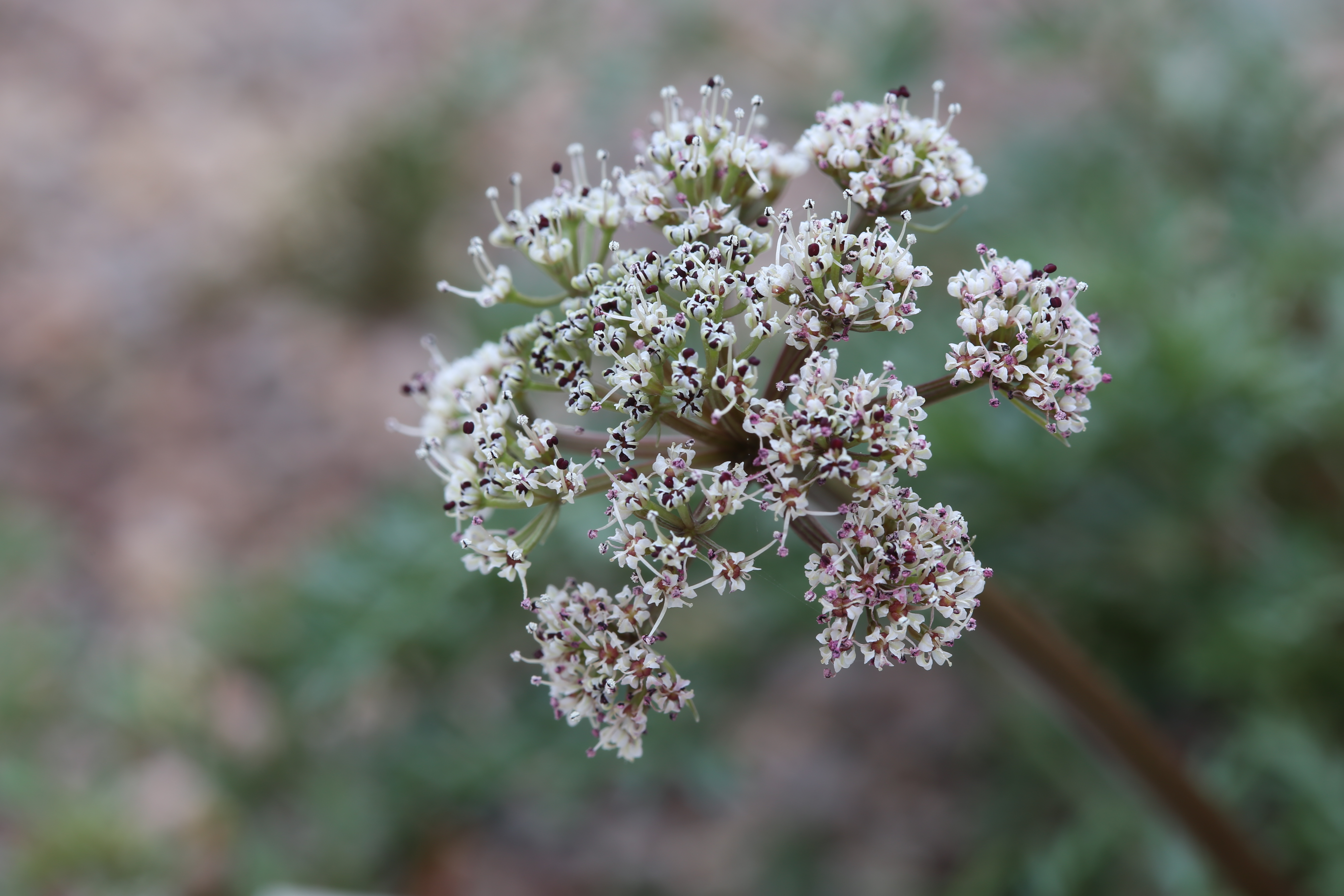 Lomatium canbyi in Gothenburg Botanical Garden in 2015. Plant id: 1993-0336 s W; Ratko, R